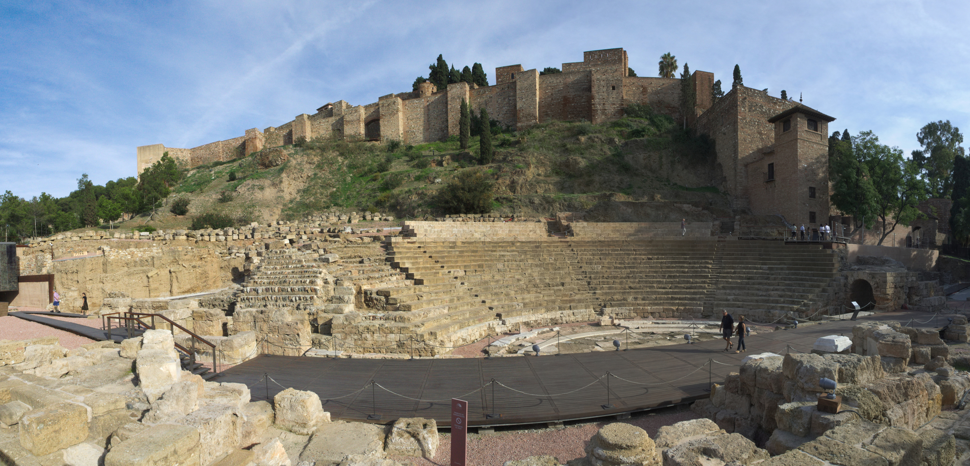 Malaga - Roman Theatre